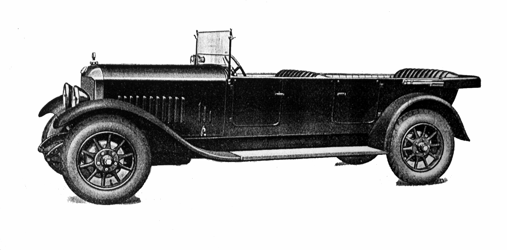 Selve, 9/36 PS, 1926-1927